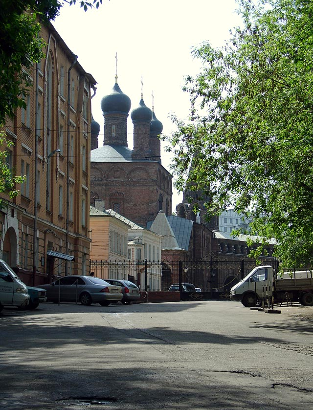 Moscow, Fourth Krutitsky Lane